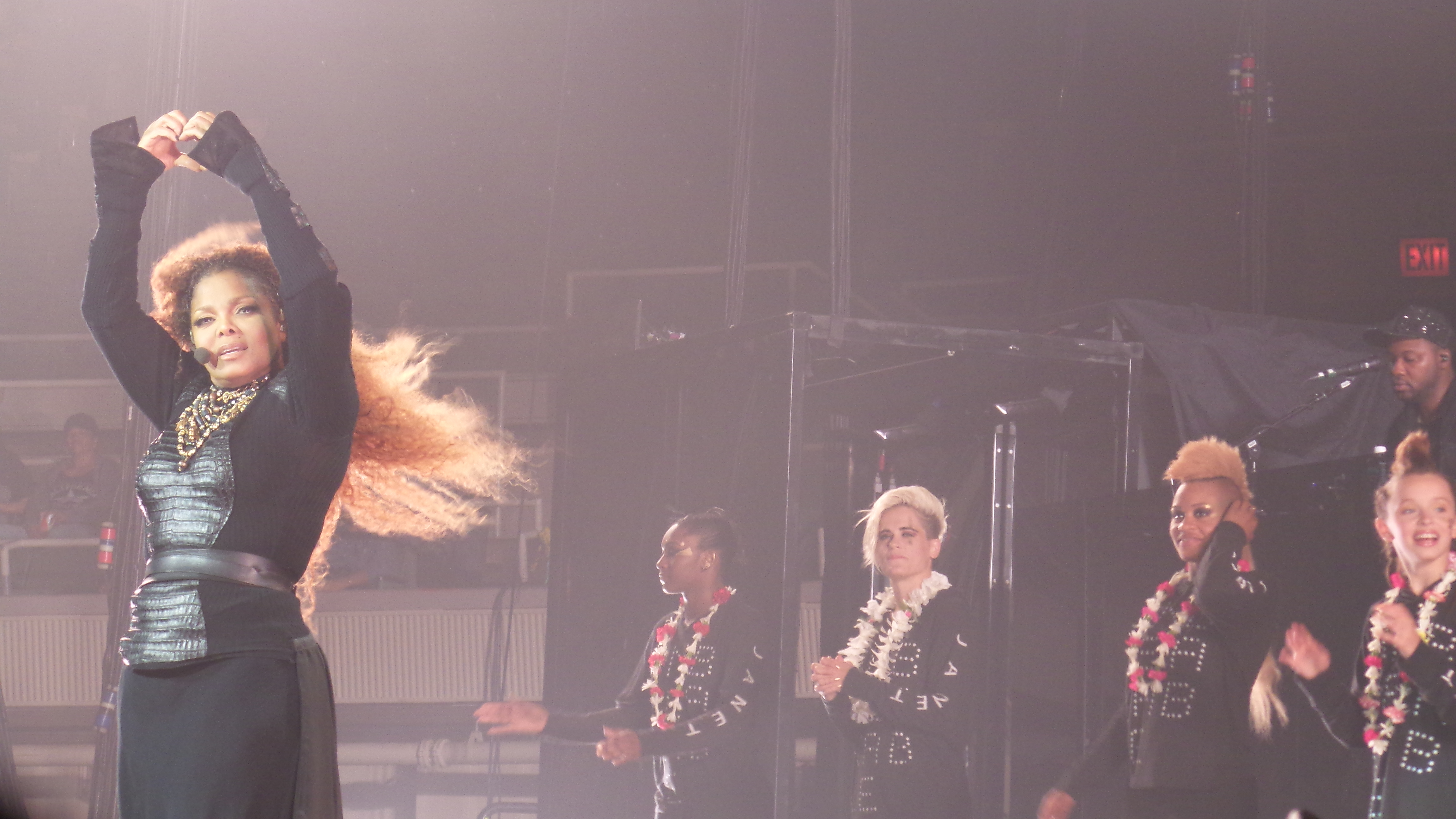 Janet Jackson Unbreakable Tour, Honolulu, Hawaii 2015